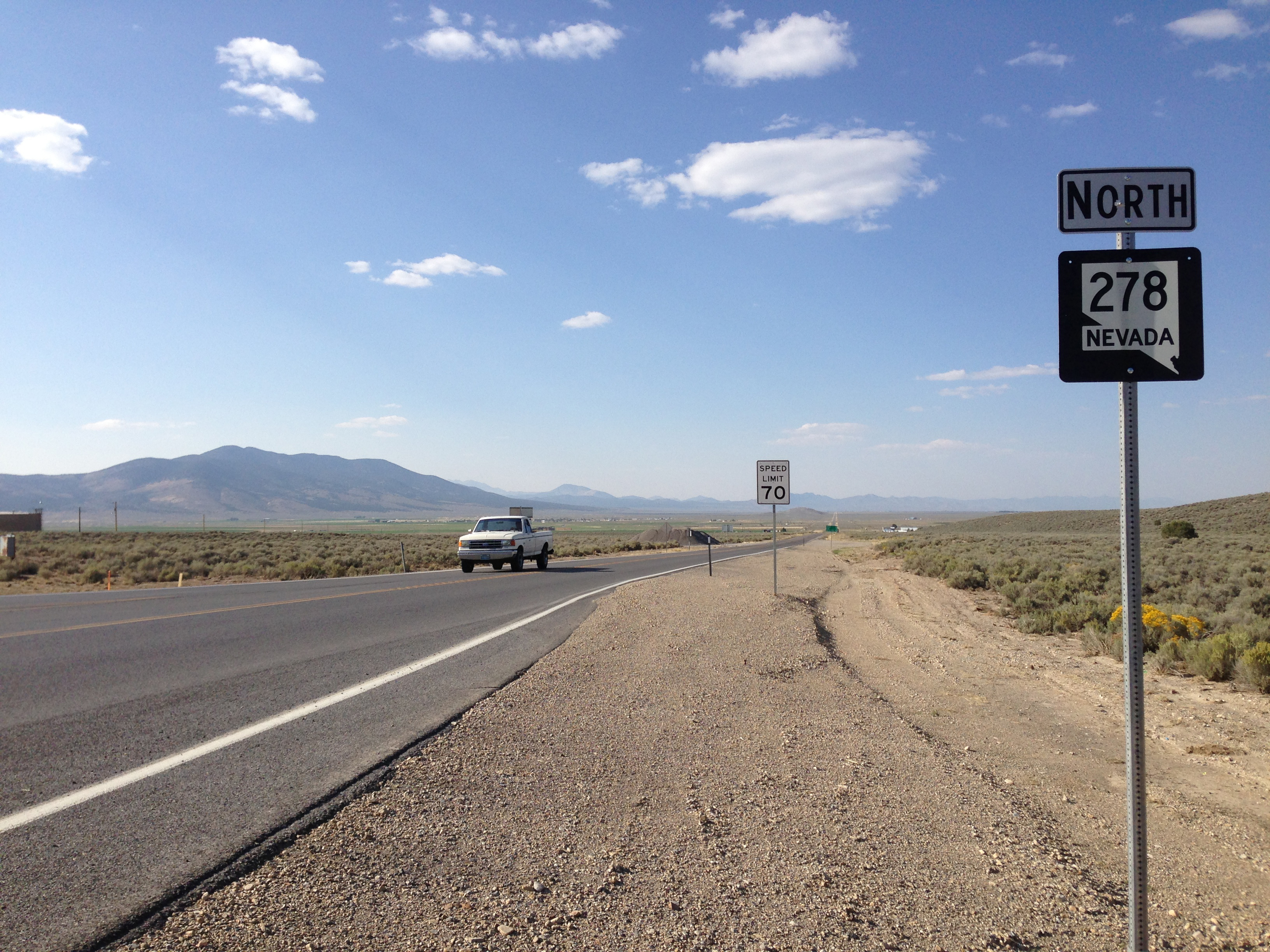 First reassurance sign along northbound Nevada State Route 278 (Eureka-Carlin Road) in Eureka County, Nevada